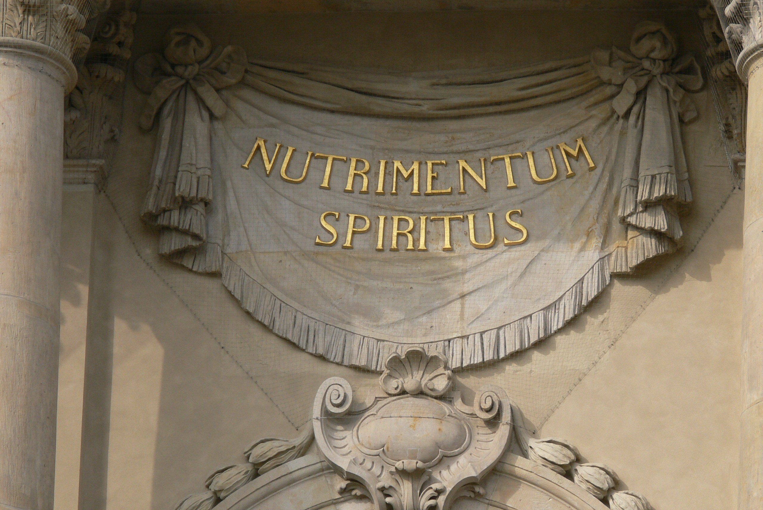 Bebelplatz ( Berlin ). Old Library: Latin inscription: "Nutrimentum spiritus" ( Nourishment of the spirits ) .